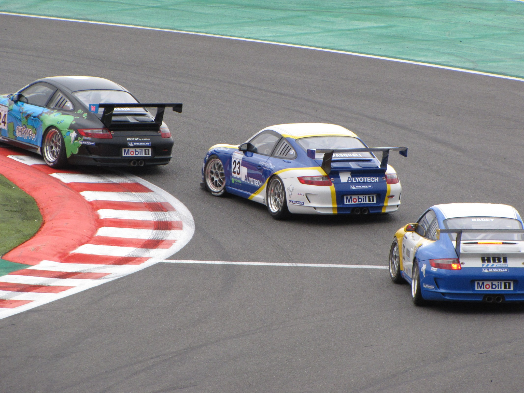 three Porsche 997 GT3 Cup from Porsche Carrera Cup France at Bus Stop in Spa 2010